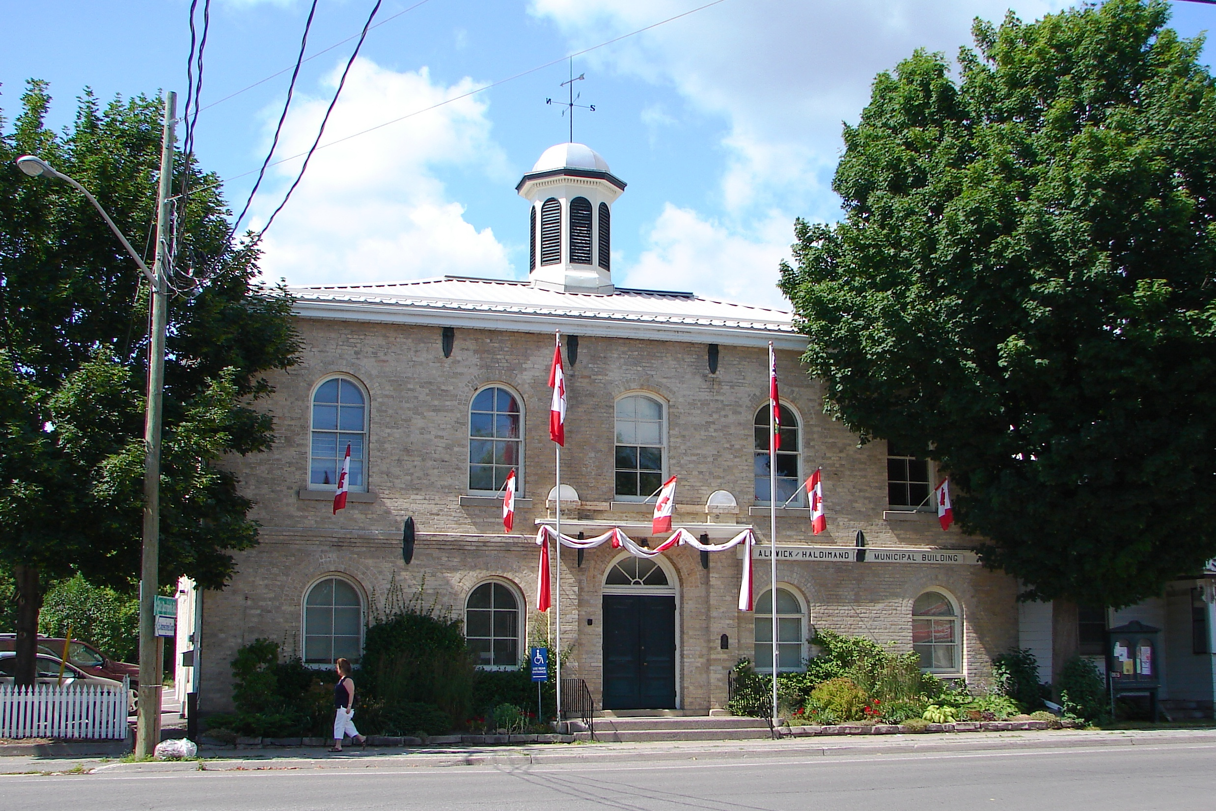 Municipal office of Alnwick/Haldimand Township in Grafton, Ontario, Canada